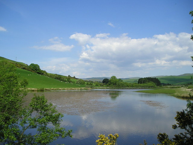 Reservoir at Mynydd-Gorddu This reservoir was probably made to provide power for the small mines in the valley just below which are marked on older versions of the Ordnance Survey maps.